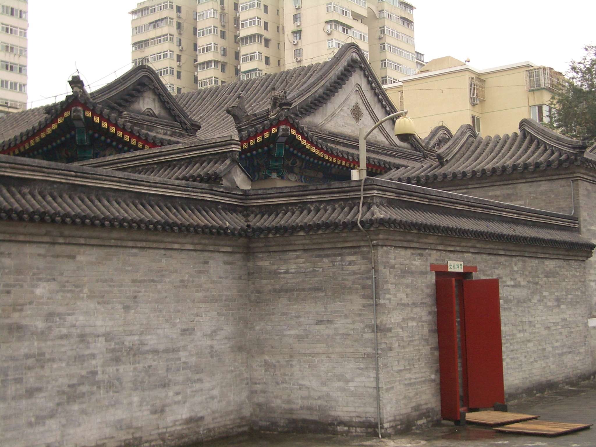 Niujie Mosque, Beijing